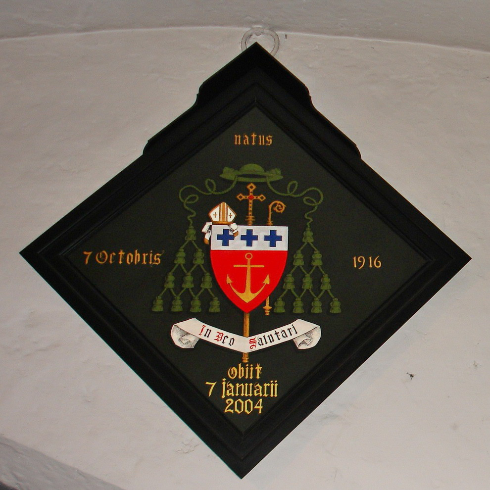 The funeral hatchment of Leonce-Albert Van Peteghem in Ghent Cathedral. Own picture taken, today Carolus 01:00, 9 November 2006 (UTC)